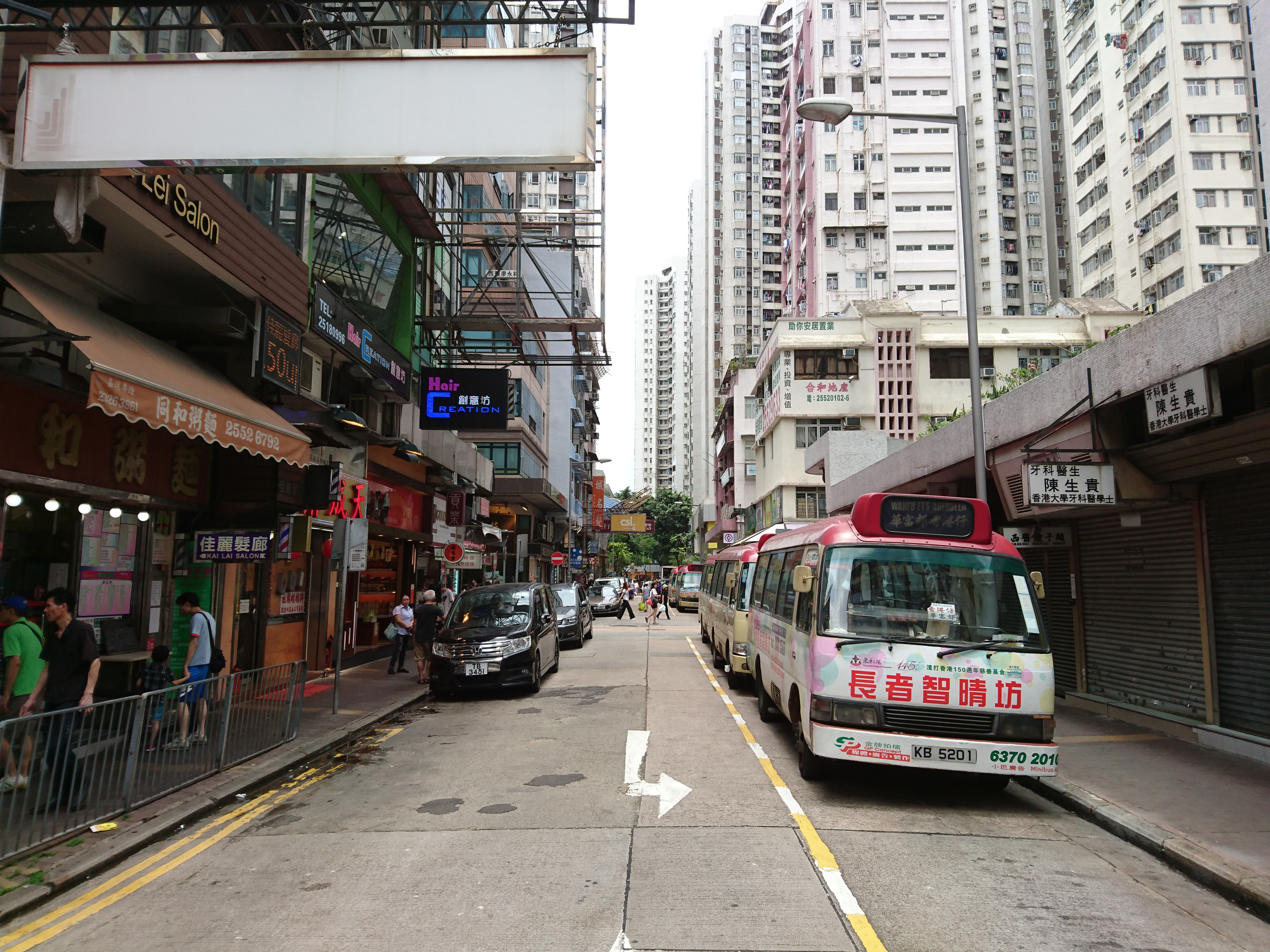 Wu Pak Street